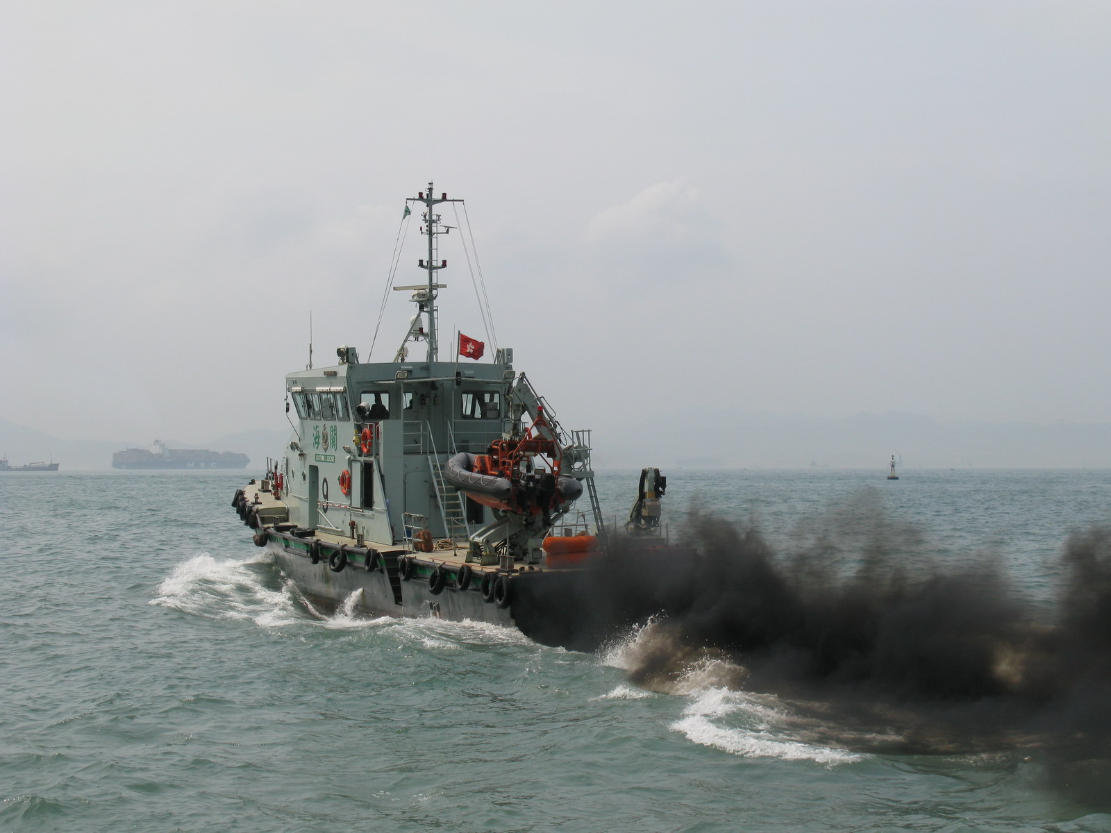 Customs & Excise Department Vessel